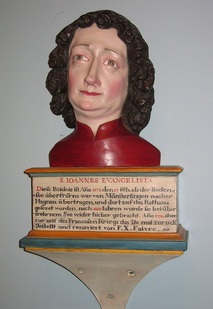 Statue of John the Evangelist which is carried over the Lake of Consance when it is totally frozen over.